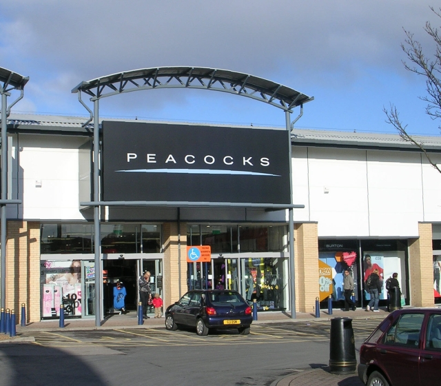 Peacocks - Forster Square Retail Park